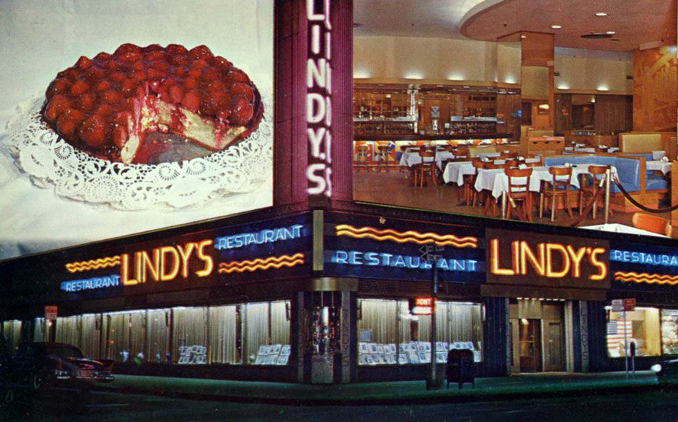 Postcard photo of Lindy's Restaurant at Broadway and 52st Street in New York City.